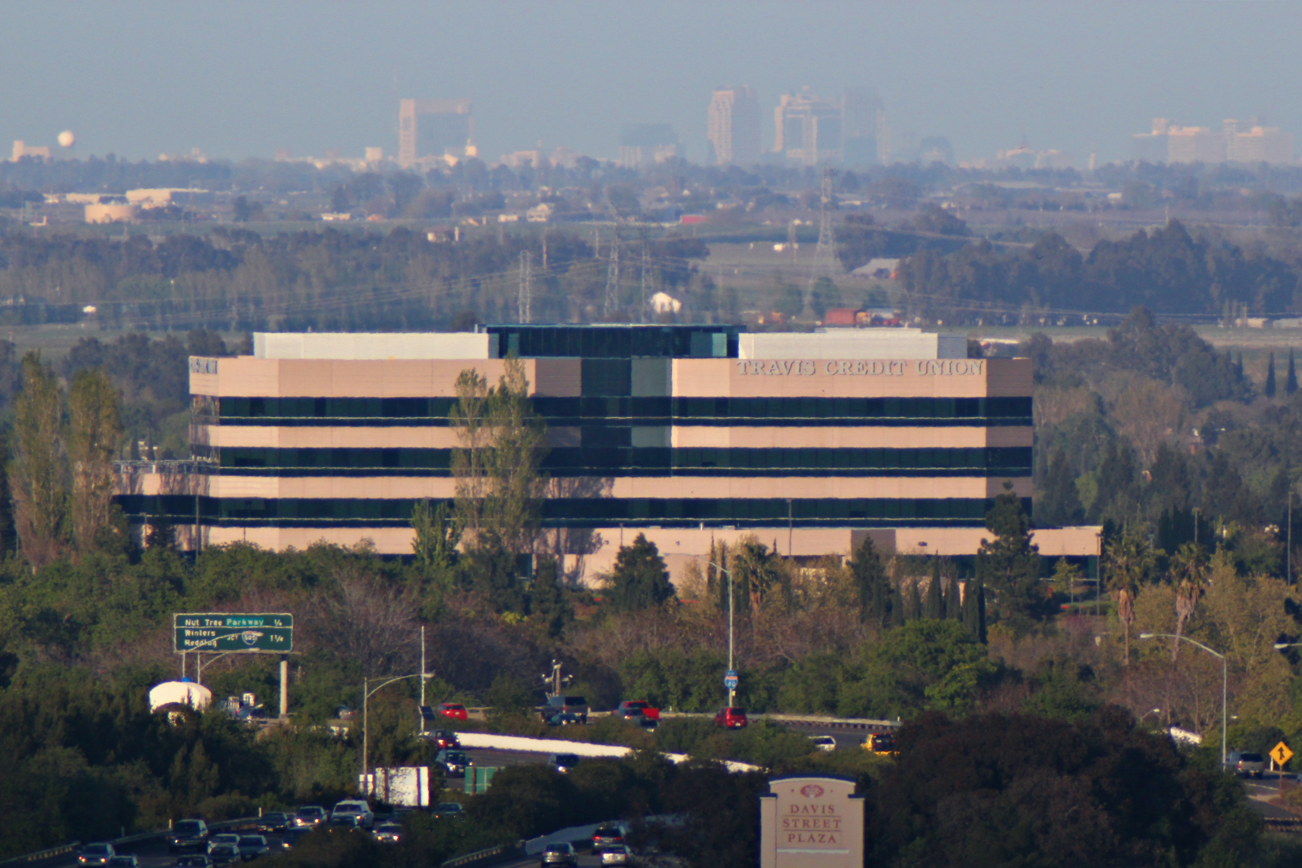 Travis Credit Union Headquarters in Vacaville, CA, USA. Sacramento skyline can been seen in the distance.